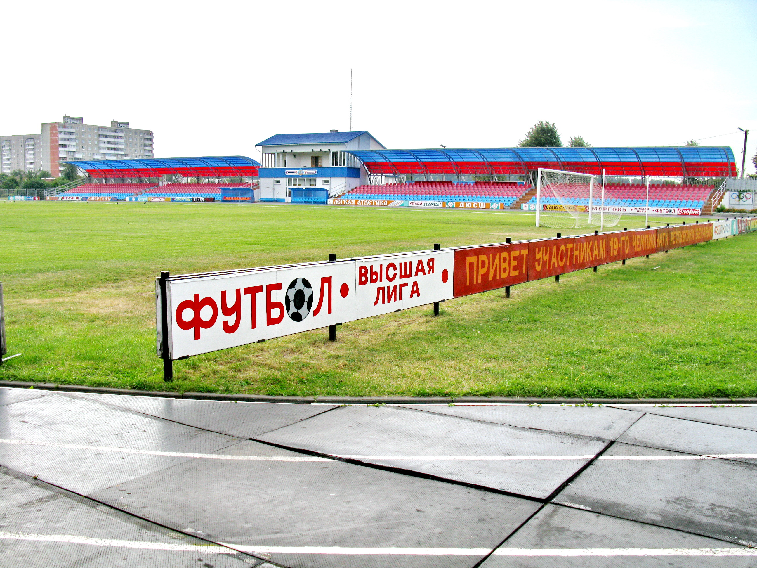 Smarhon stadium Yunatstva (the main tribune), Belarus